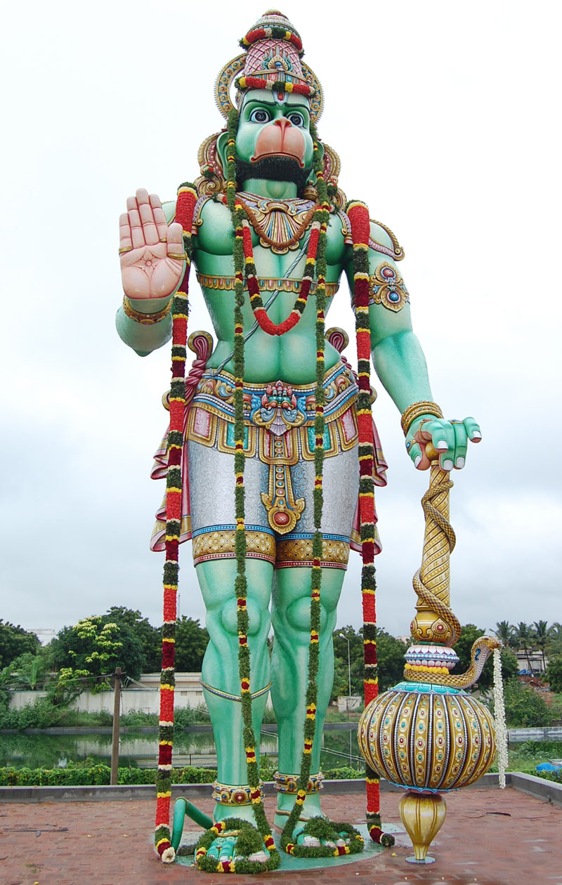 SHRI BHAKTHA ANJANEYAR - Vedasandur, Dindigul, Tamil Nadu “ Miraculous, Eternal and Divine Power”